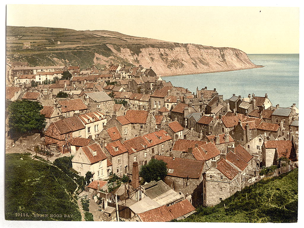 [Whitby, Robin Hood's Bay, Yorkshire, England] [between ca. 1890 and ca. 1900]. 1 photomechanical print : photochrom, color. Notes: Title from the Detroit Publishing Co., Catalogue J--foreign section, Detroit, Mich. : Detroit Publishing Company, 1905. Print no. "10456". Forms part of: Views of the British Isles, in the Photochrom print collection. Subjects: England--Whitby. Format: Photochrom prints--Color--1890-1900. Repository: Library of Congress, Prints and Photographs Division, Washington, D.C. 20540 USA, Part Of: Views of the British Isles (DLC) 2002696059 More information about the Photochrom Print Collection is available at Higher resolution image is available (Persistent URL): Call Number: LOT 13415, no. 1092 [item]